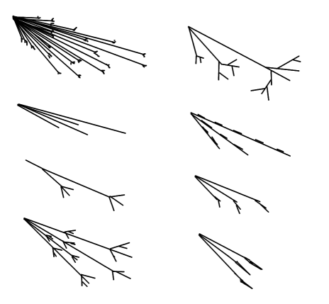 Various spark patterns produced when spark testing metals.